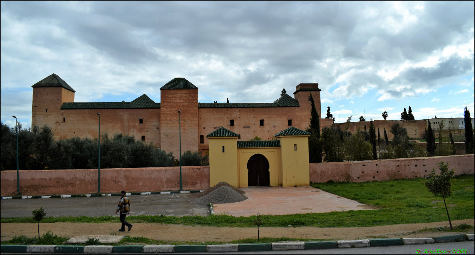 The former Dar al-Bayda Palace in Meknes, now a Royal Military Academy